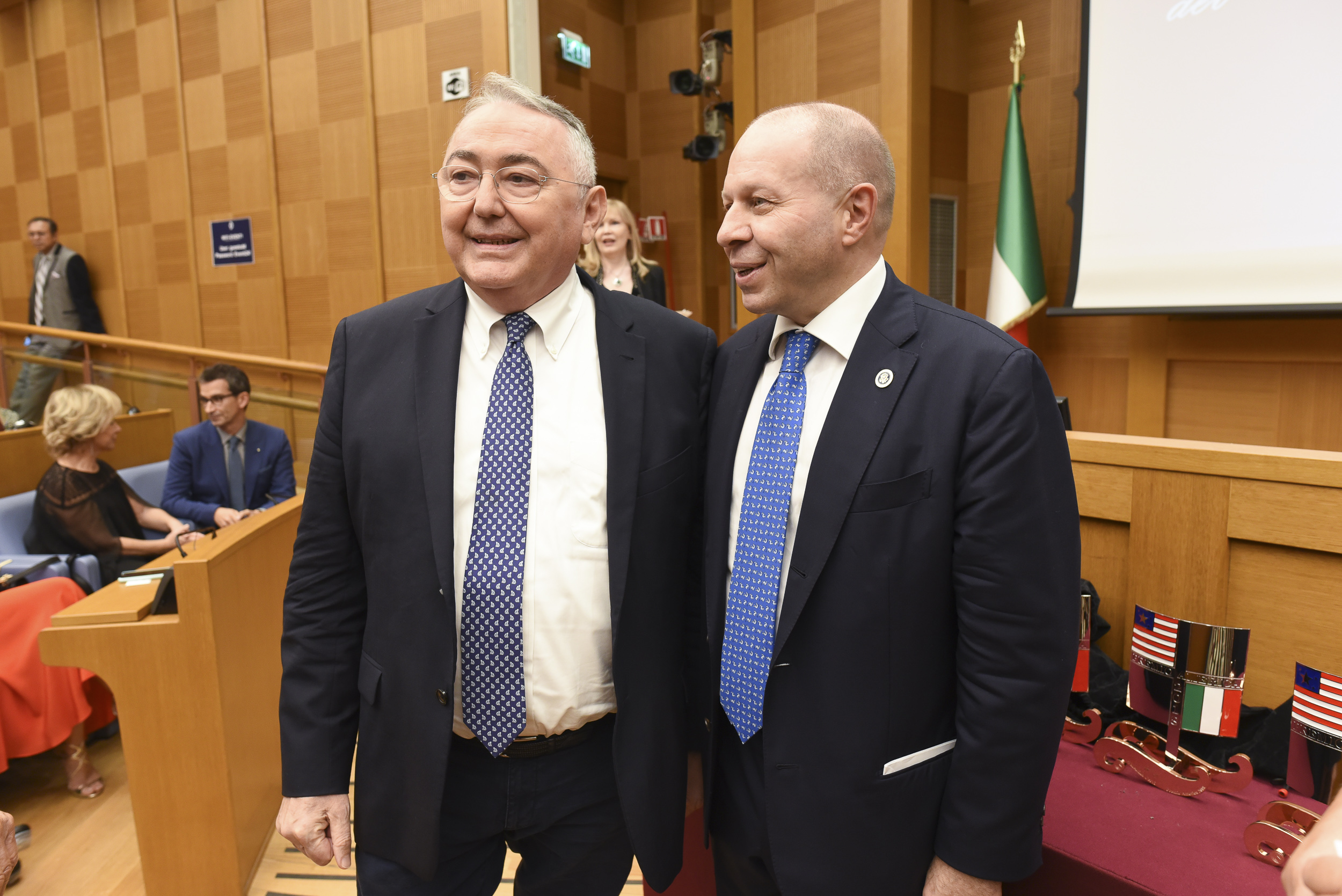 JOURNALIST EMILIO CARELLI; SECRETARY GENERAL ITALY-USA FOUNDATION CORRADO MARIA DACLON